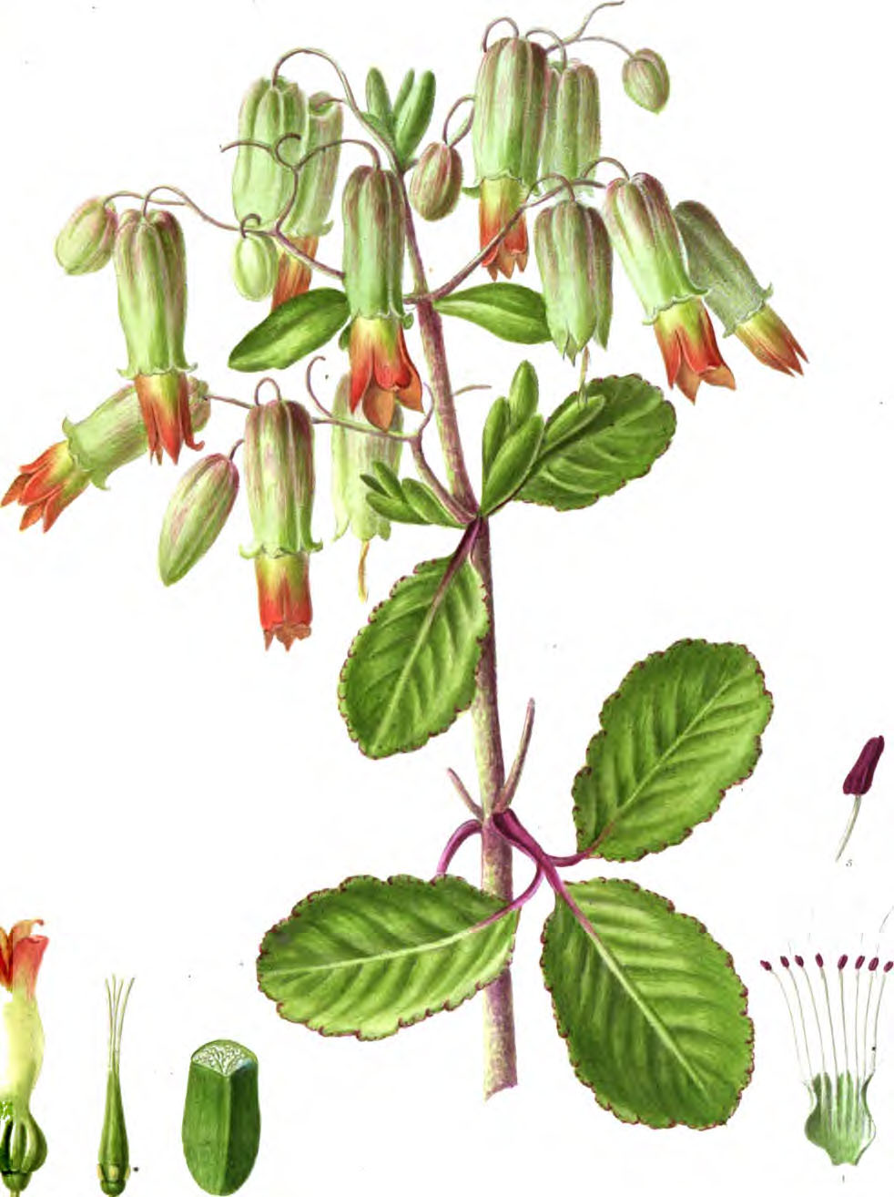 Bryophyllum calycinum Tafel aus der Erstbeschreibung in The Paradisus Londinensis: Or Coloured Figures of Plants, Tafel 20